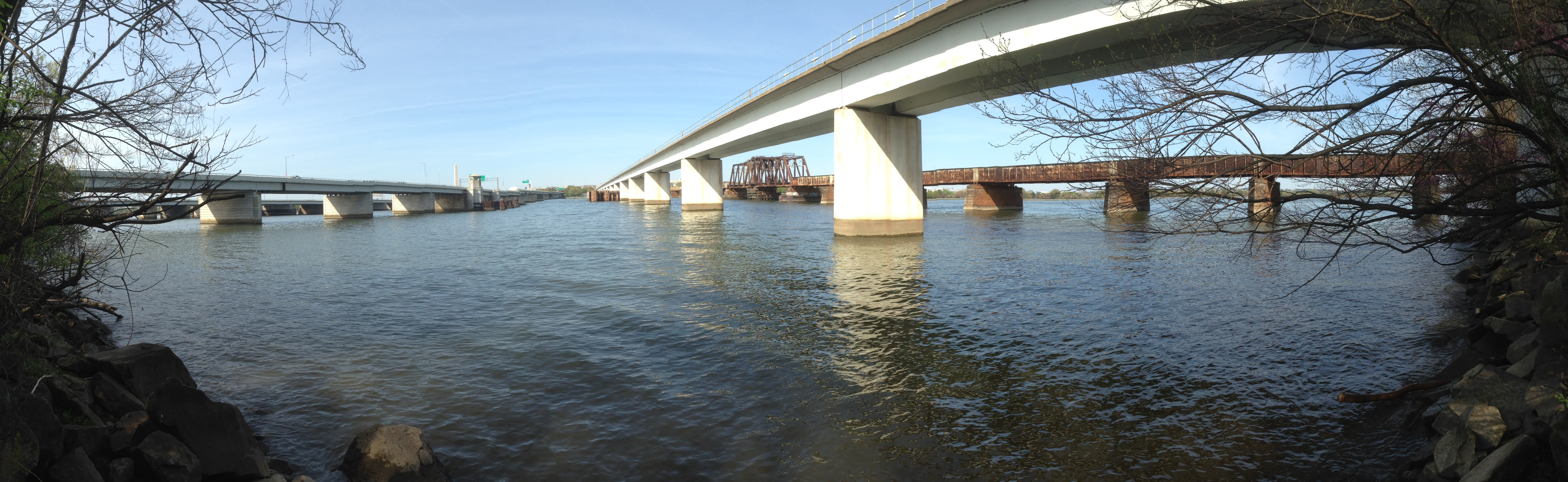 Rotating-lens panoramic view of the 14th Street Bridges in Washington, DC and Arlington, Virginia from the wast in April 2015. All five bridges in the complex are visible: George Mason and Rochambeau Bridges (left background), Williams Bridge (left foreground), Fenwick Bridge (right foreground), and Long Bridge (right background)